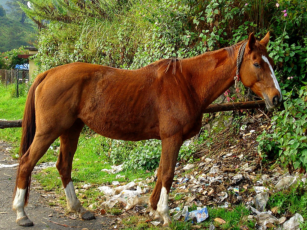 Horse shot at Munnar